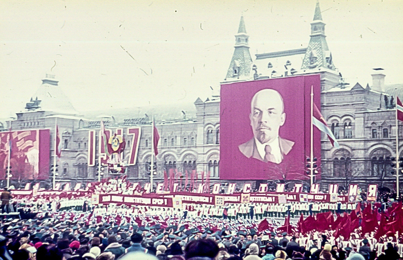 Official demonstration on 7 November 1977 on the Red Square in Moscow